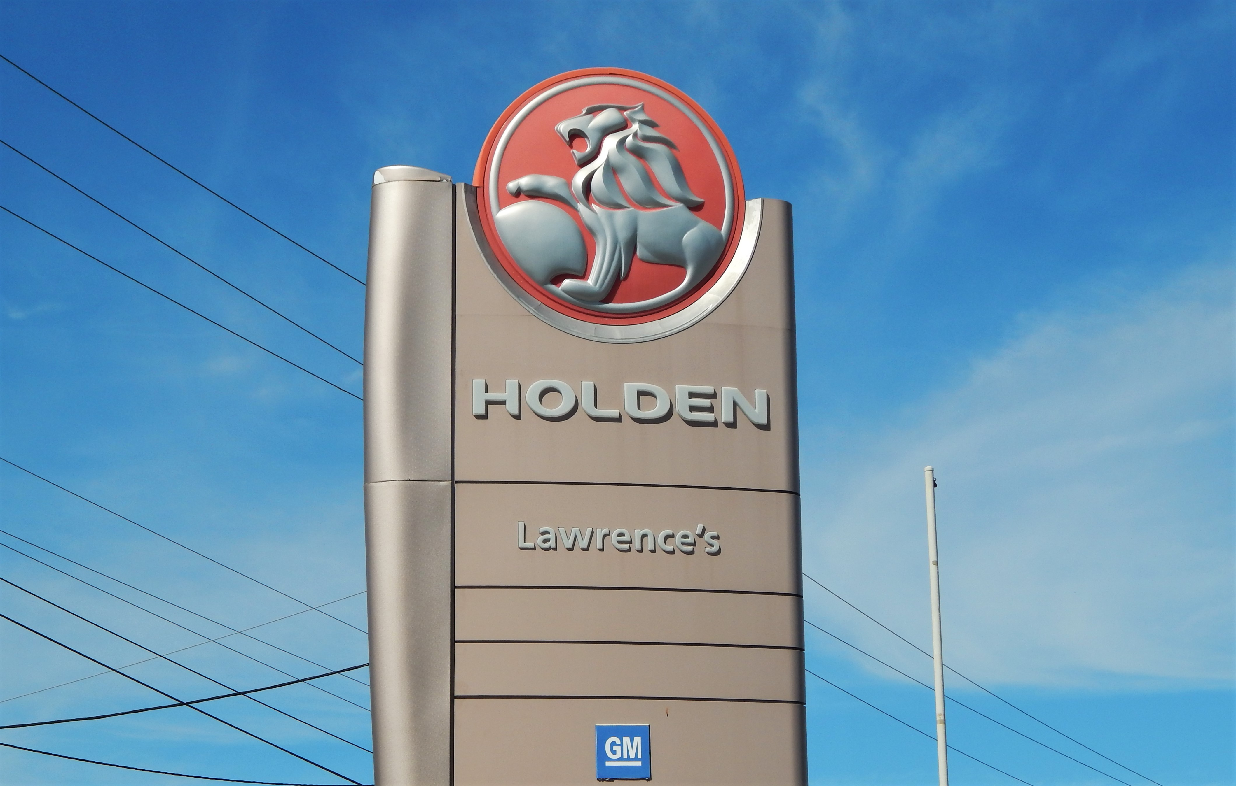 A sign incorporating the Holden logo at Lawrence's Motors, the local Holden dealership in Rockhampton, Queensland